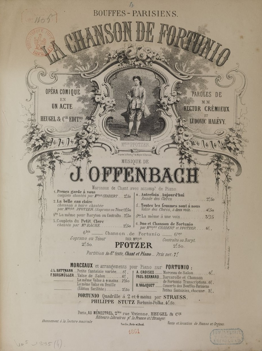 Partition of a selection of pieces and arrangenments from Le Chanson de Fortunio, opéra-comique by Jacques Offenbach, title page with an engraving representing Julia Zoé Pfotzer as Valentin